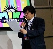 Takaaki Kidani, President of the Bushiroad, Inc., visited the Anime Festival Asia in Singapore on November, 2010.